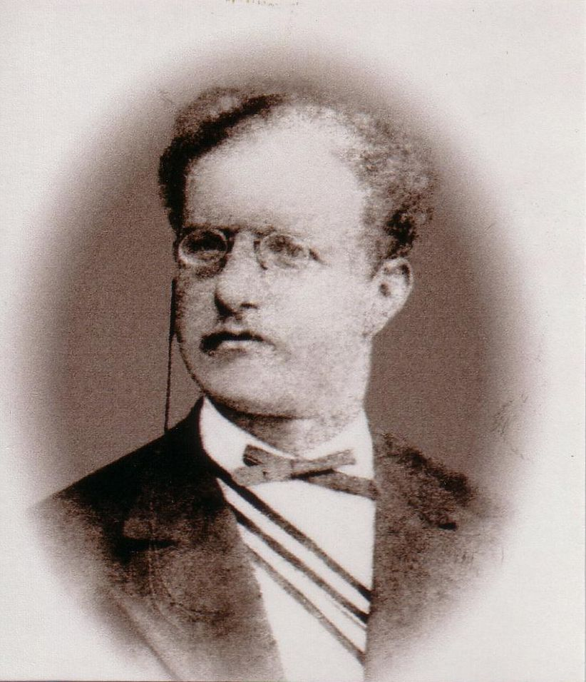 Photographic portrait of Rudolf Focke